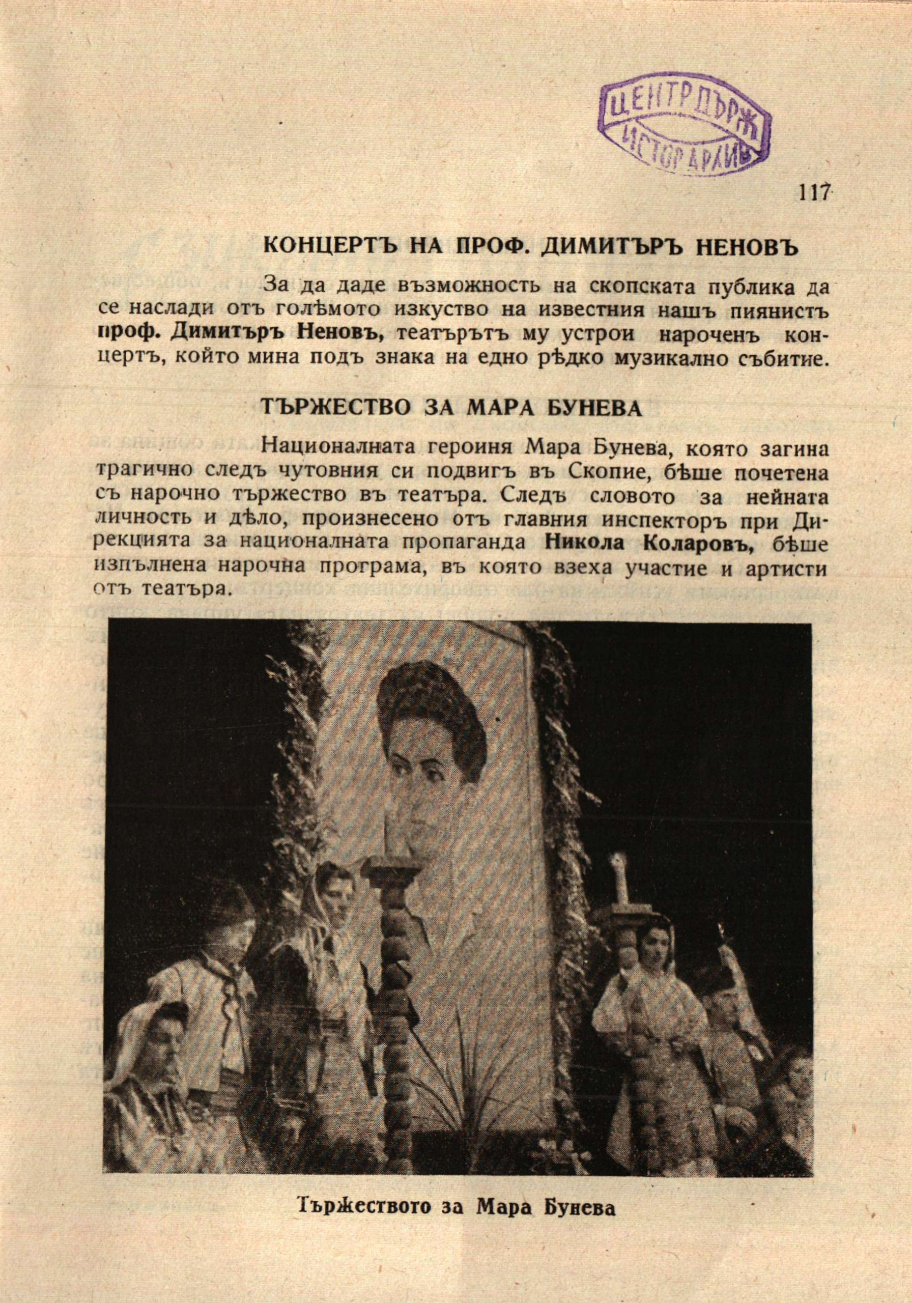 Skopje National Theatre